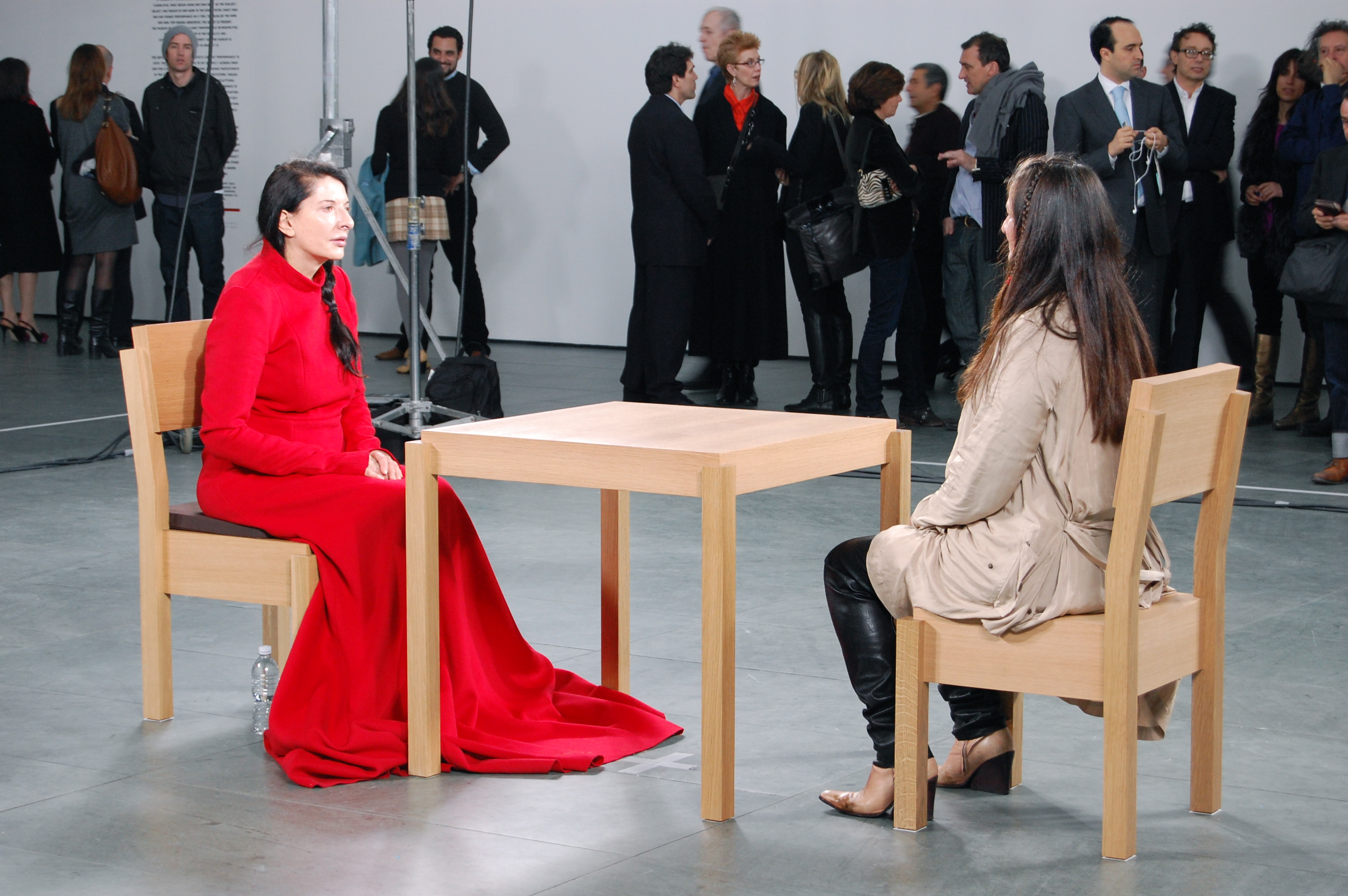 Marina Abramović, The Artist is Present, 2010, Museum of Modern Art, New York, 9 March – 31 May 2010.